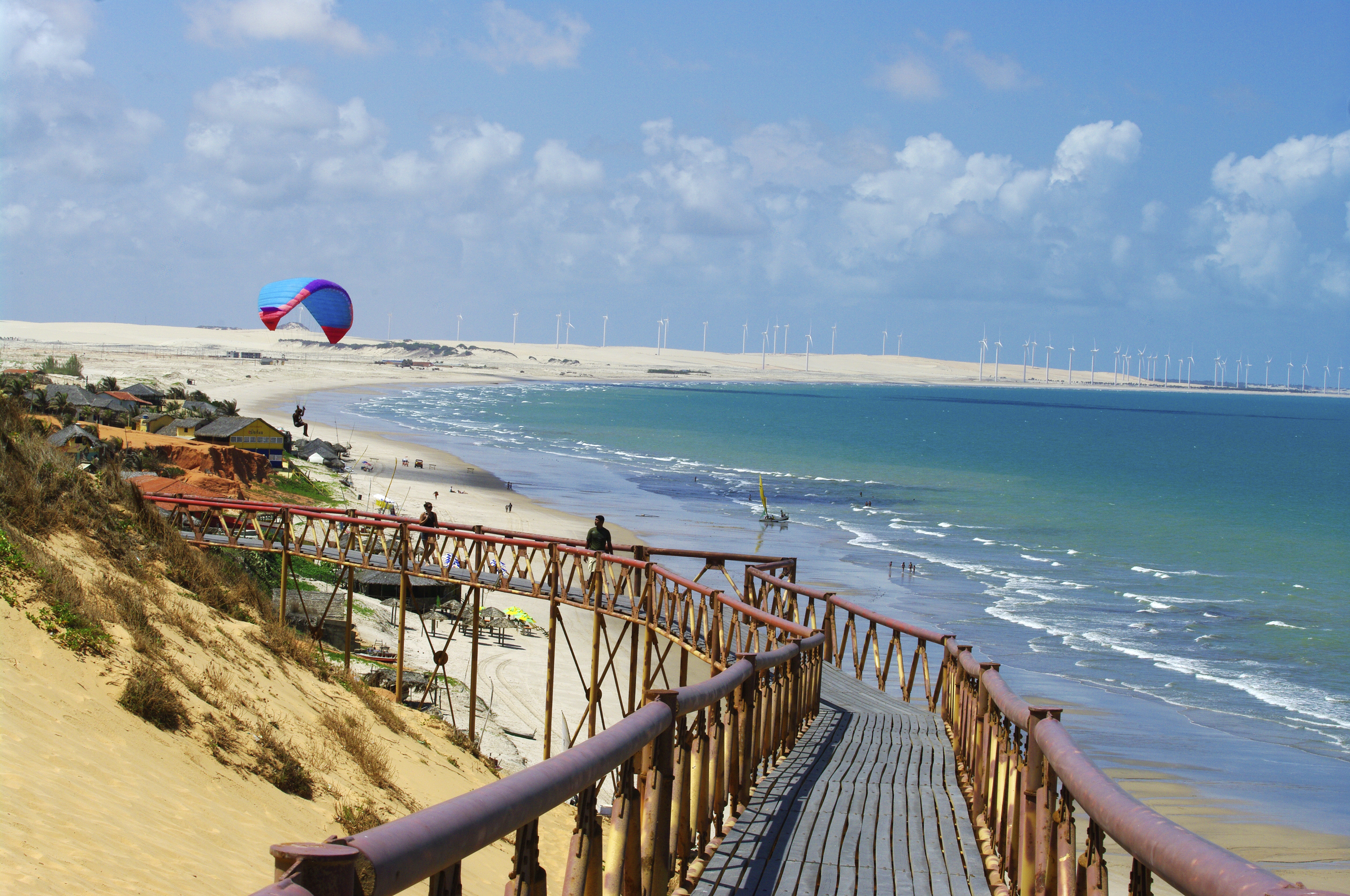 Canoa Quebrada (2)